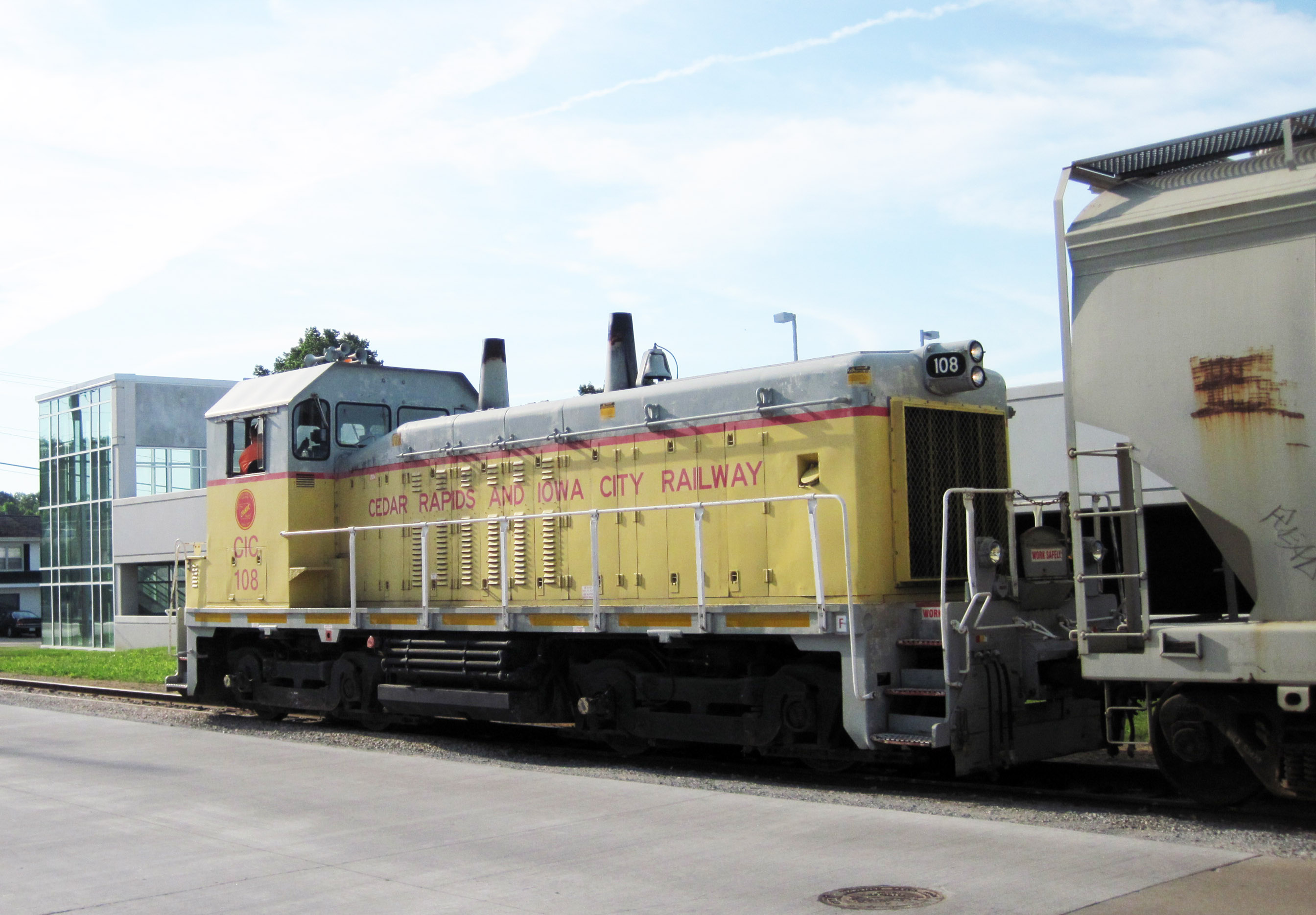 Railroad engine, CRANDIC line. CIC #108 is an EMD SW14, a rebuild of an EMD SW9.